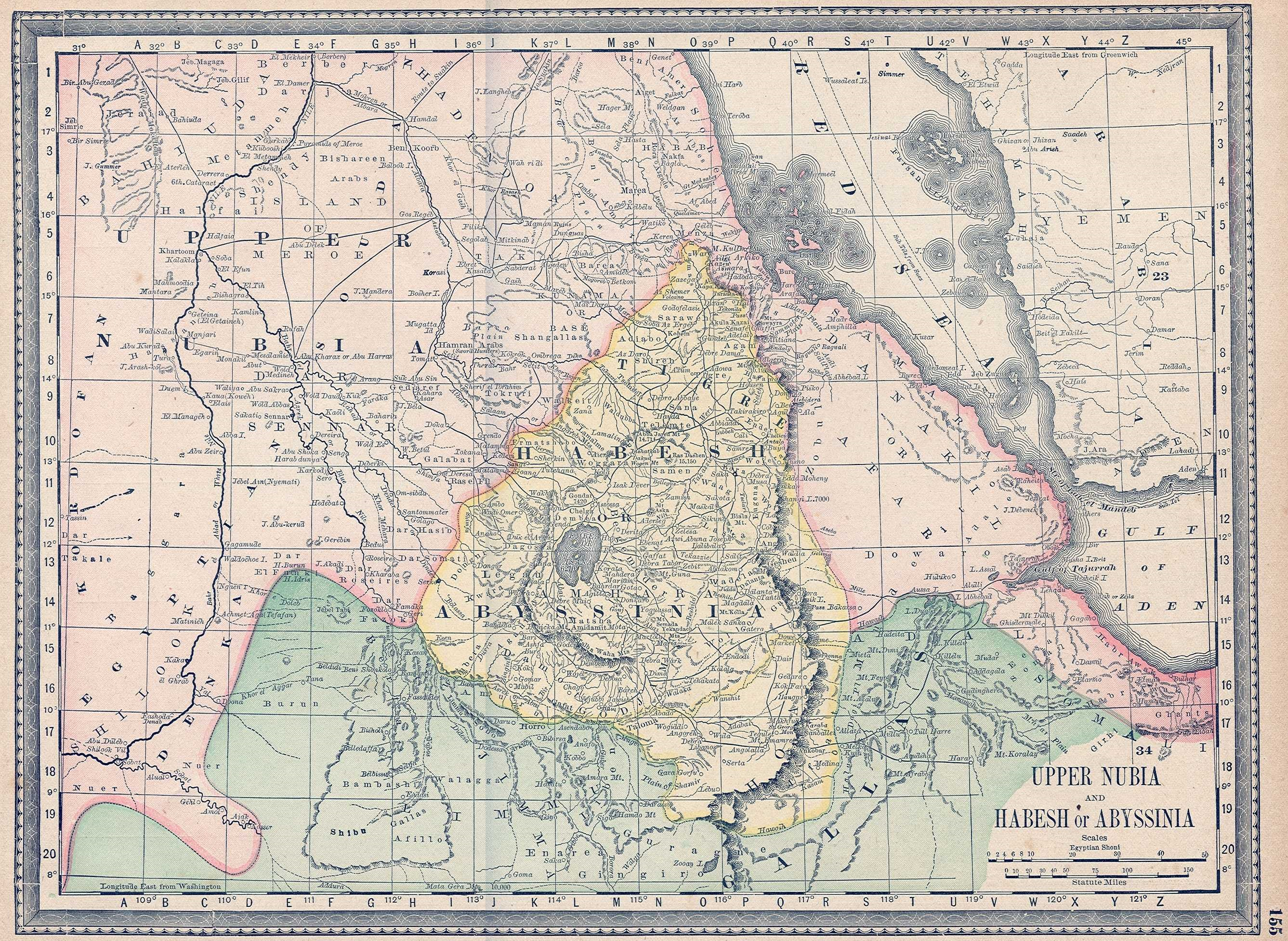 Map of a portion of Northeast Africa in the early 1880s, from Rand McNally and Co.'s fourth edition of "Indexed Atlas of the World", published in 1882 and reproduced in subsequent editions. Shown in pink is the southern part of the ephemeral Egyptian empire in the Sudan and East Africa. Egyptian Khedive Isma'il Pasha (1863-1879), already in control of the Sudan, had imperial ambitions in East Africa. Egyptian armies occupied the Upper Nile Valley (Upper Nubia) and the southern Red Sea ports in the mid-1860s, and by 1875 they were in occupation of the entire coast from Suez to Cape Gardafui at the eastern tip of Africa, with garrisons in the Red Sea port as well as in Zeila, Bulhar, Berbera, Tadjoura. The Mahdi Uprising in the Sudan during the first half of the 1880s put an end to that ephemeral empire and by 1885 the Egyptians had evacuated all the areas shown on the map as well as all of the Sudan. They were immediately replaced by the Italian (Italian Eritrea), the French (French Somaliland) and the British (British Somaliland).